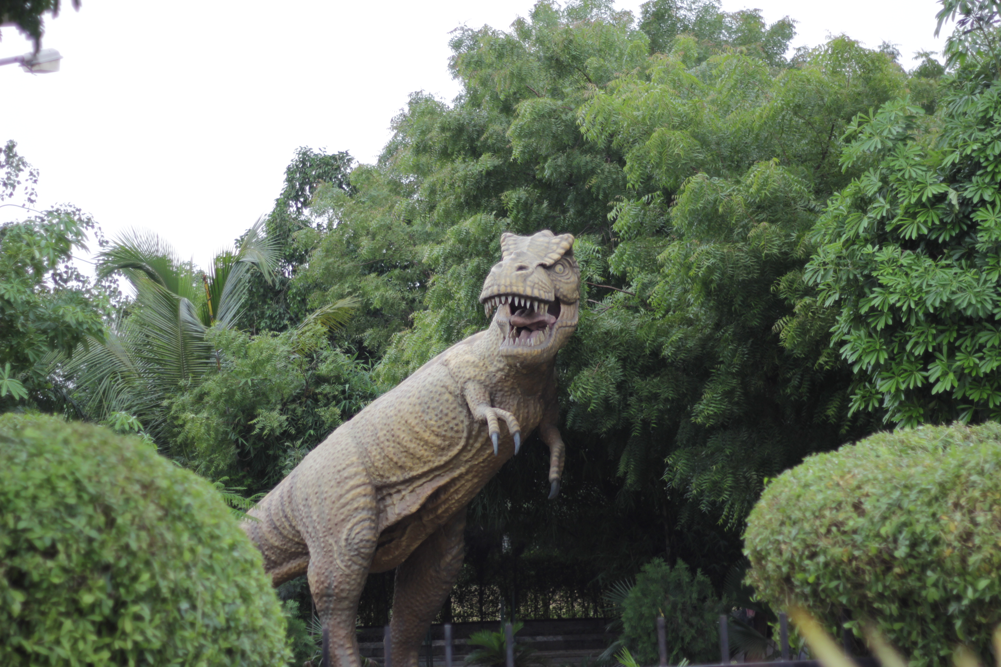 Dinosaur model at Science City